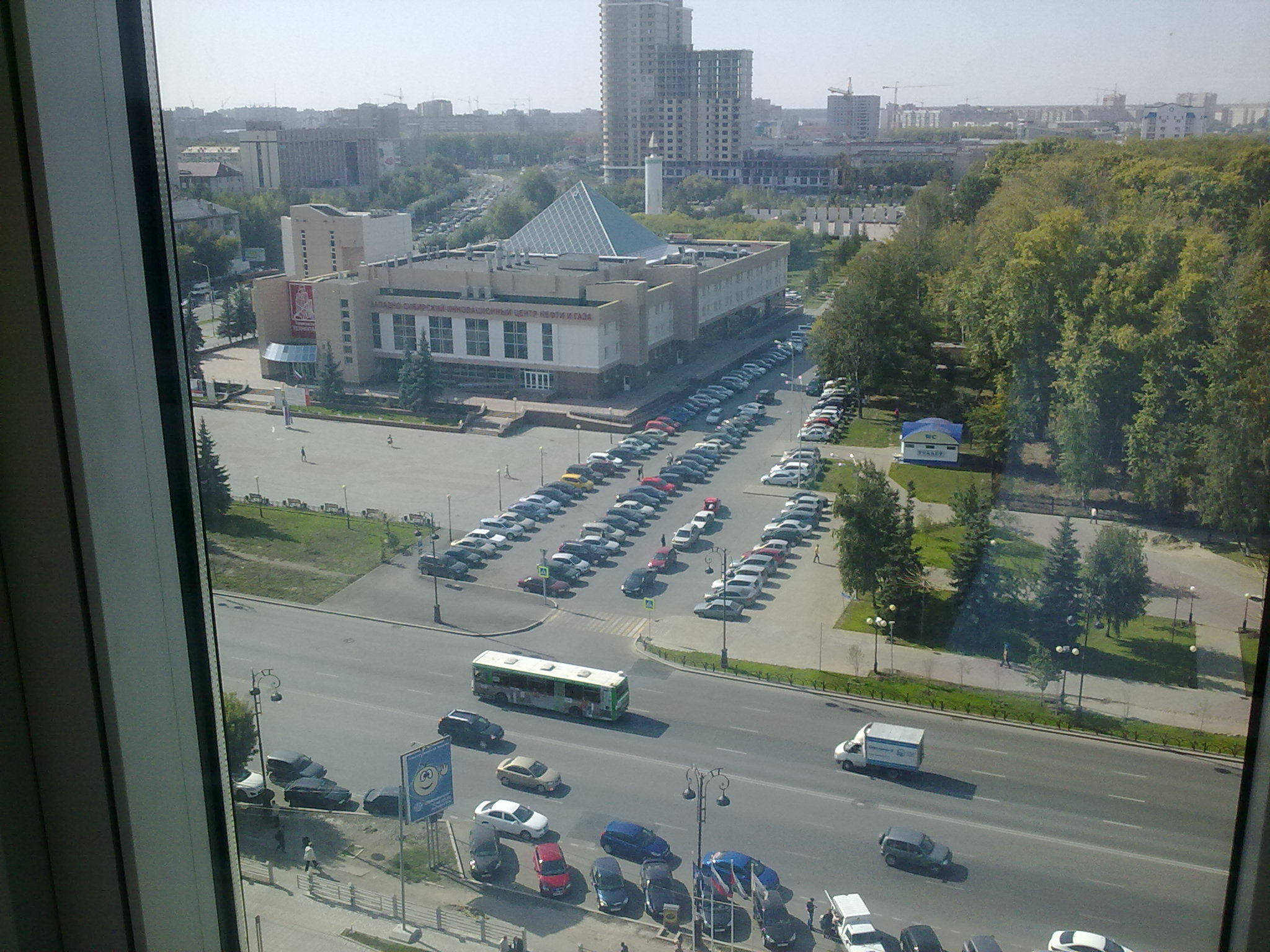 Street view from the window of a business center Gazoil-Plaza. See also West Siberian innovative Centre of oil and gas.